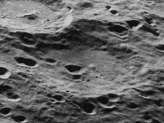 Oblique view of Brouwer, on the far side of the moon, facing west.